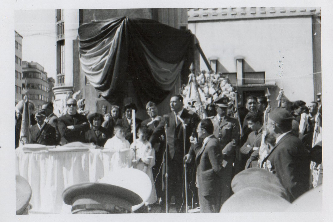 René Barrientos durante un evento cívico religioso al pie del Obelisco en la ciudad de La Paz, Bolivia, segunda mitad del sXX